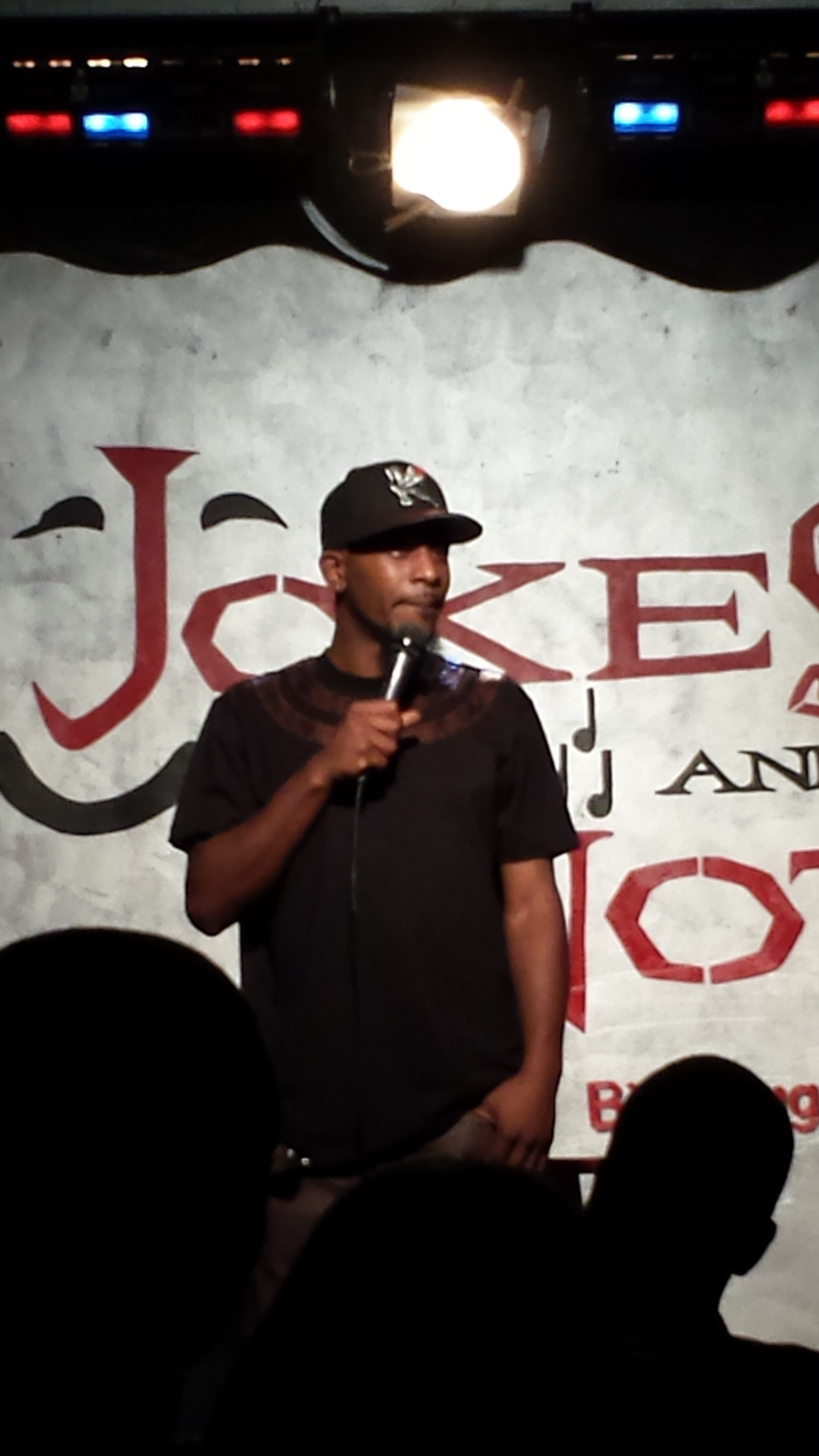 Comedy Show At Jokes And Notes